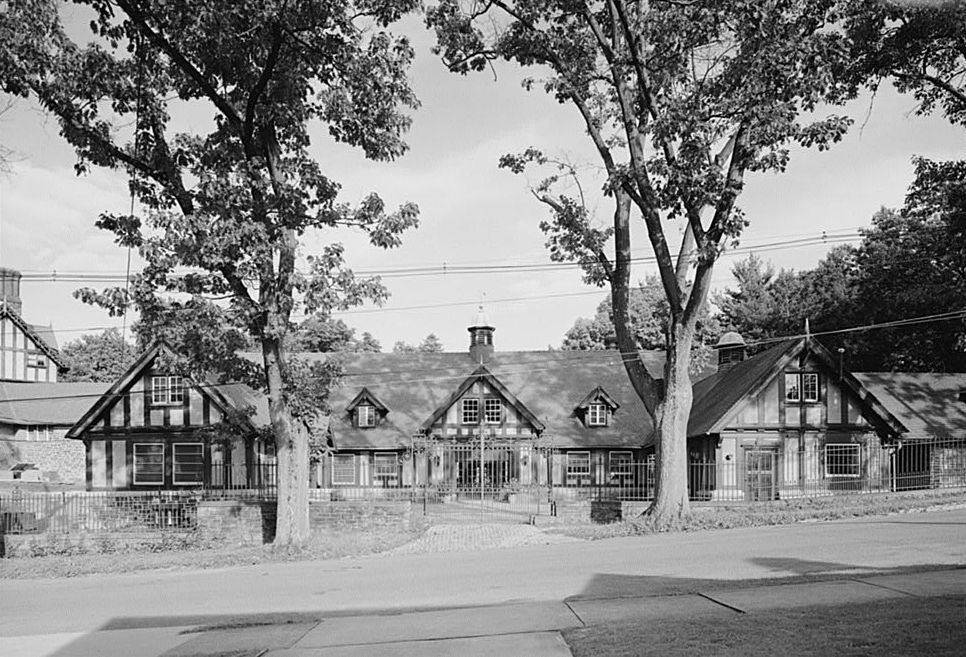 Carriage House from "High Gate" (James E. Watson mansion), 801 Fairmont Avenue, Fairmont, West Virginia (1910-13), Horace Trumbauer, architect.